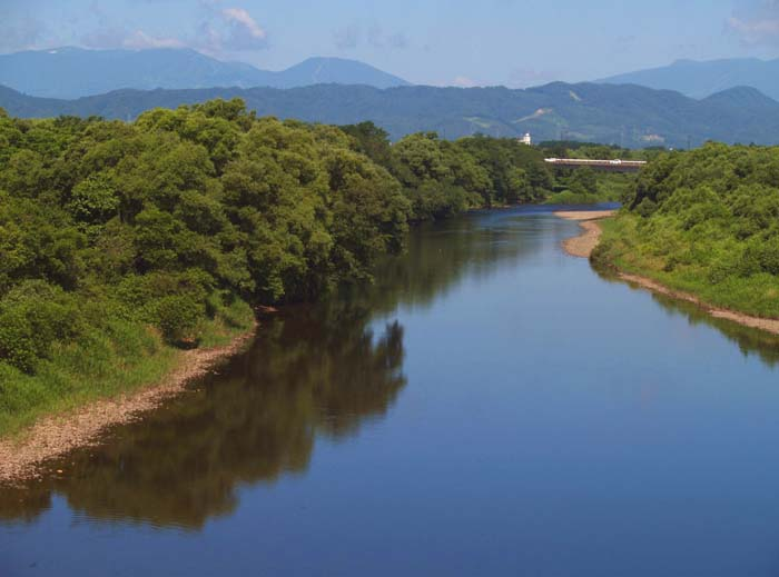 The Shizukuishi River in Morioka seen from the Mori-no-ohashi bridge